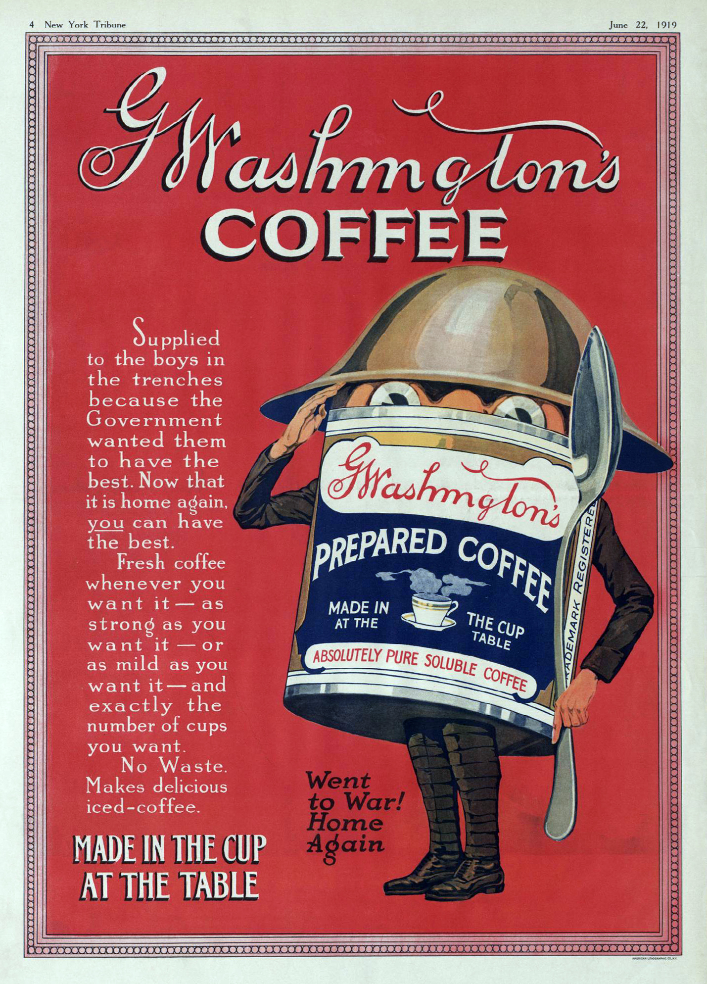 Washington's Coffee ad in rotogravure from the New York Tribune, page 4 of 16